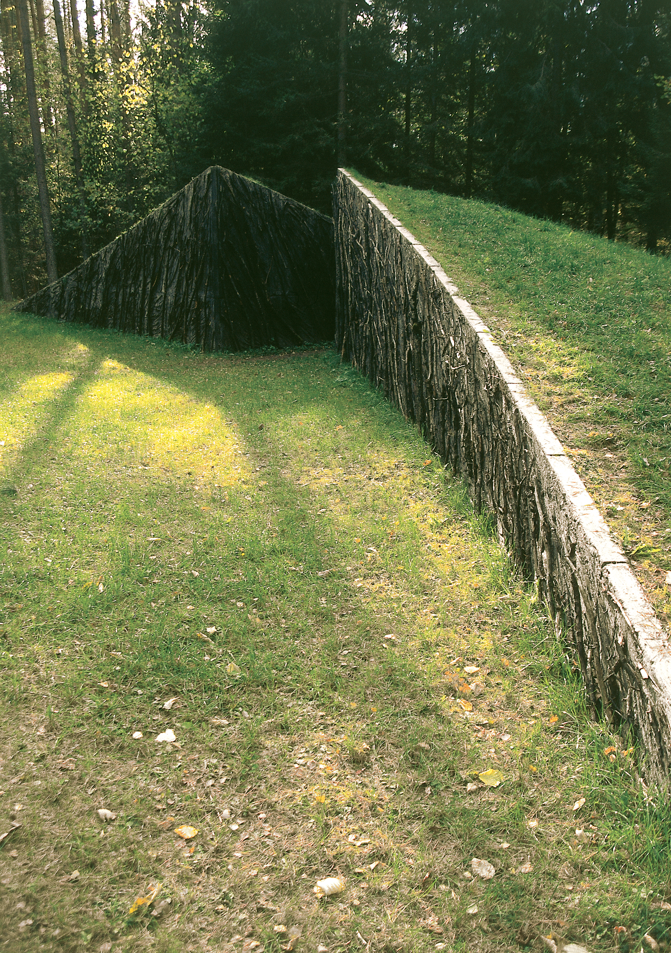 Departure: For My Grandmother. Created by Beverly Pepper, exhibited in Europos Parkas, Open-Air Museum of the Centre of Europe, Lithuania